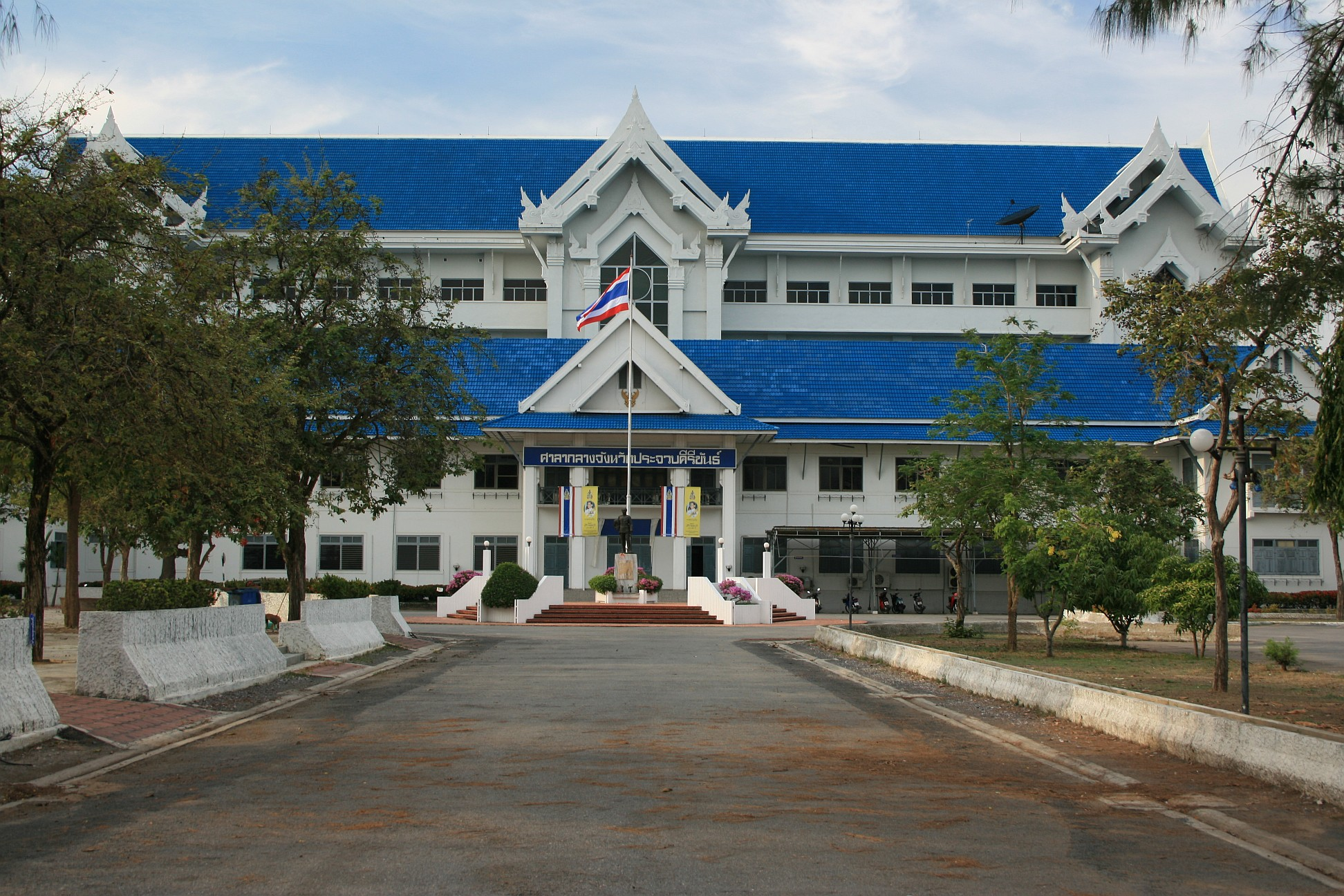 Provincial hall of Prachuap Khiri Khan, Thailand